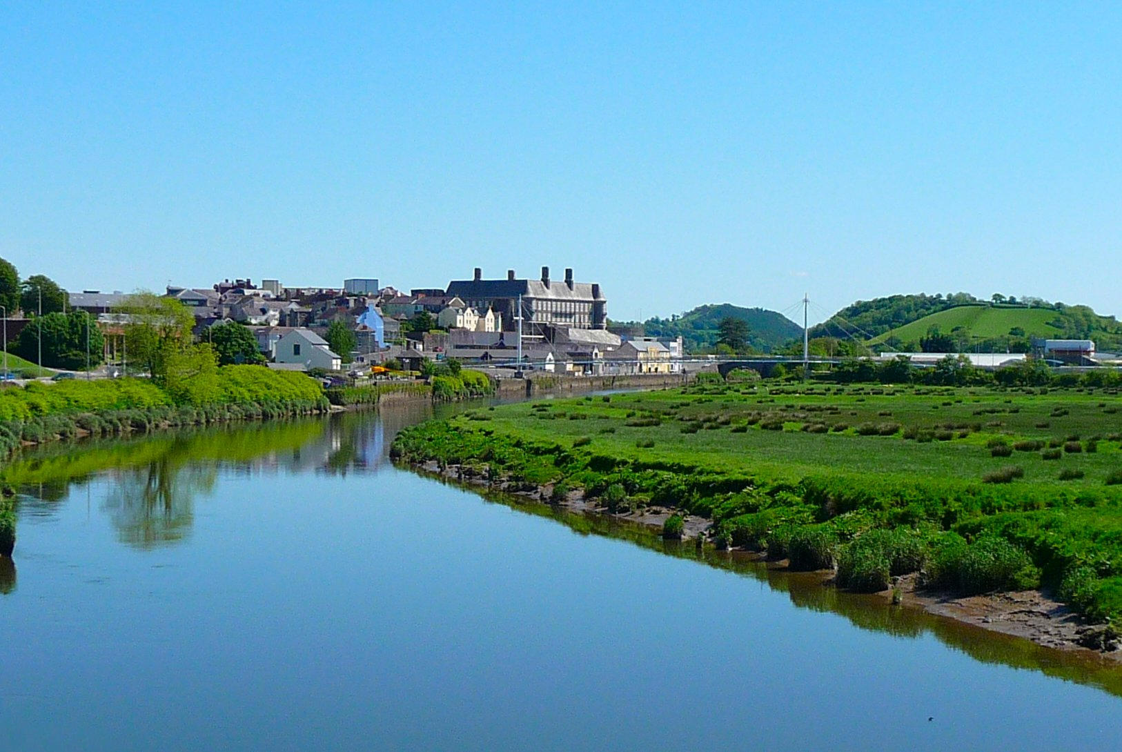 Taken from the A40 Lesneven Bridge